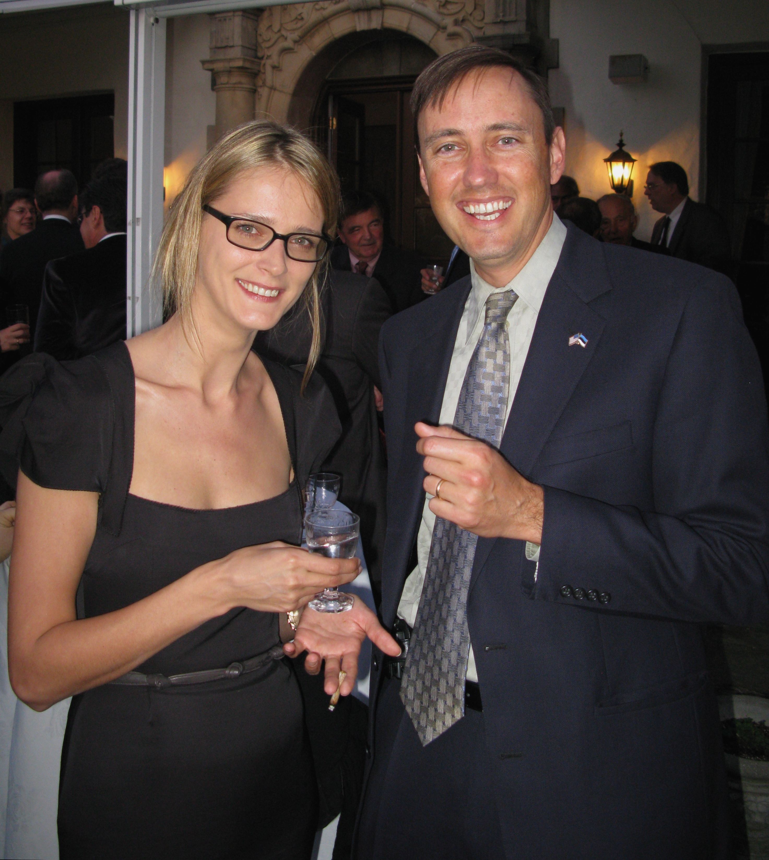 Estonian model Carmen Kass and Estonian-American entrepreneur Steve Jurvetson in 2008.